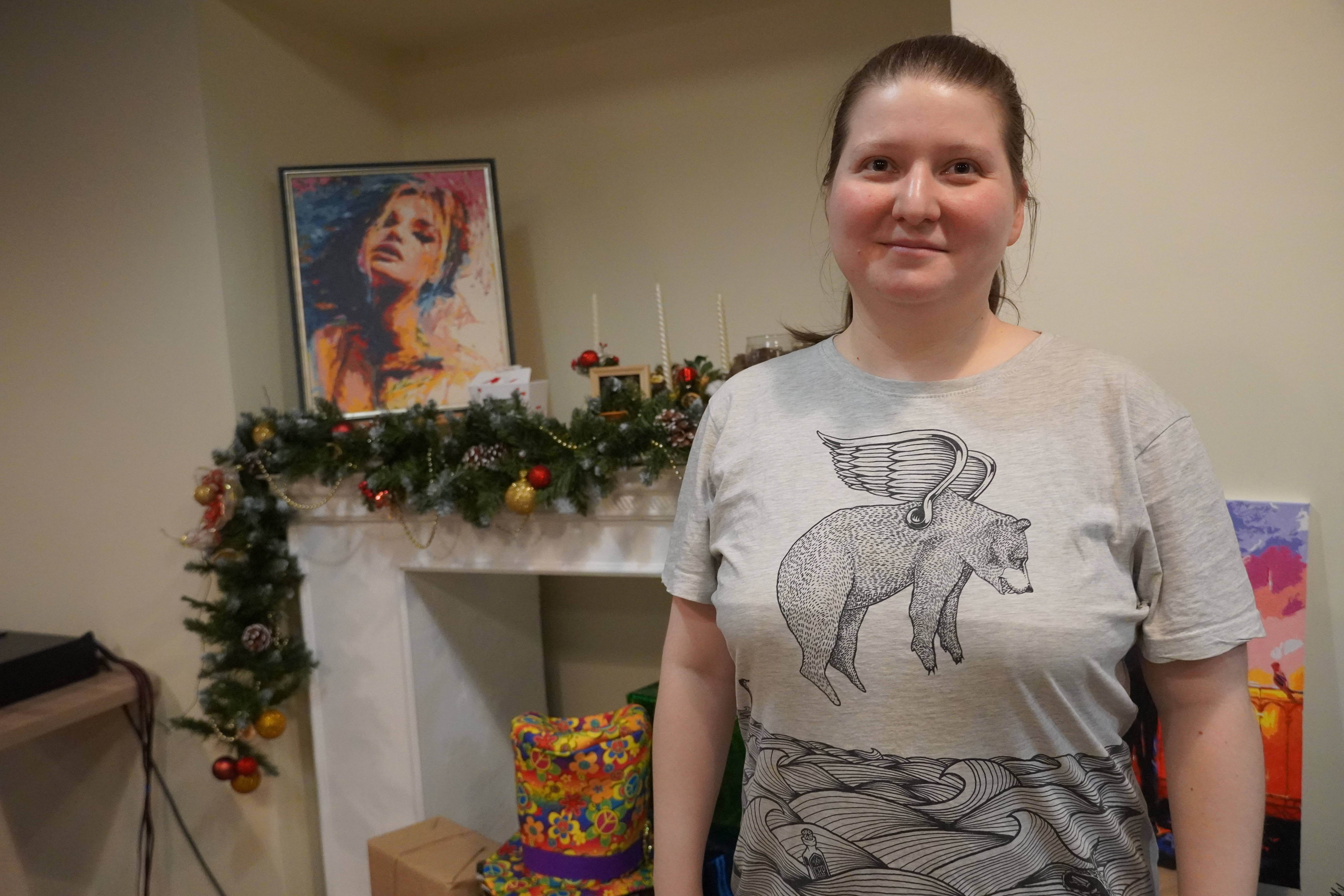 Wikimeetup in Moscow 2020-01-11